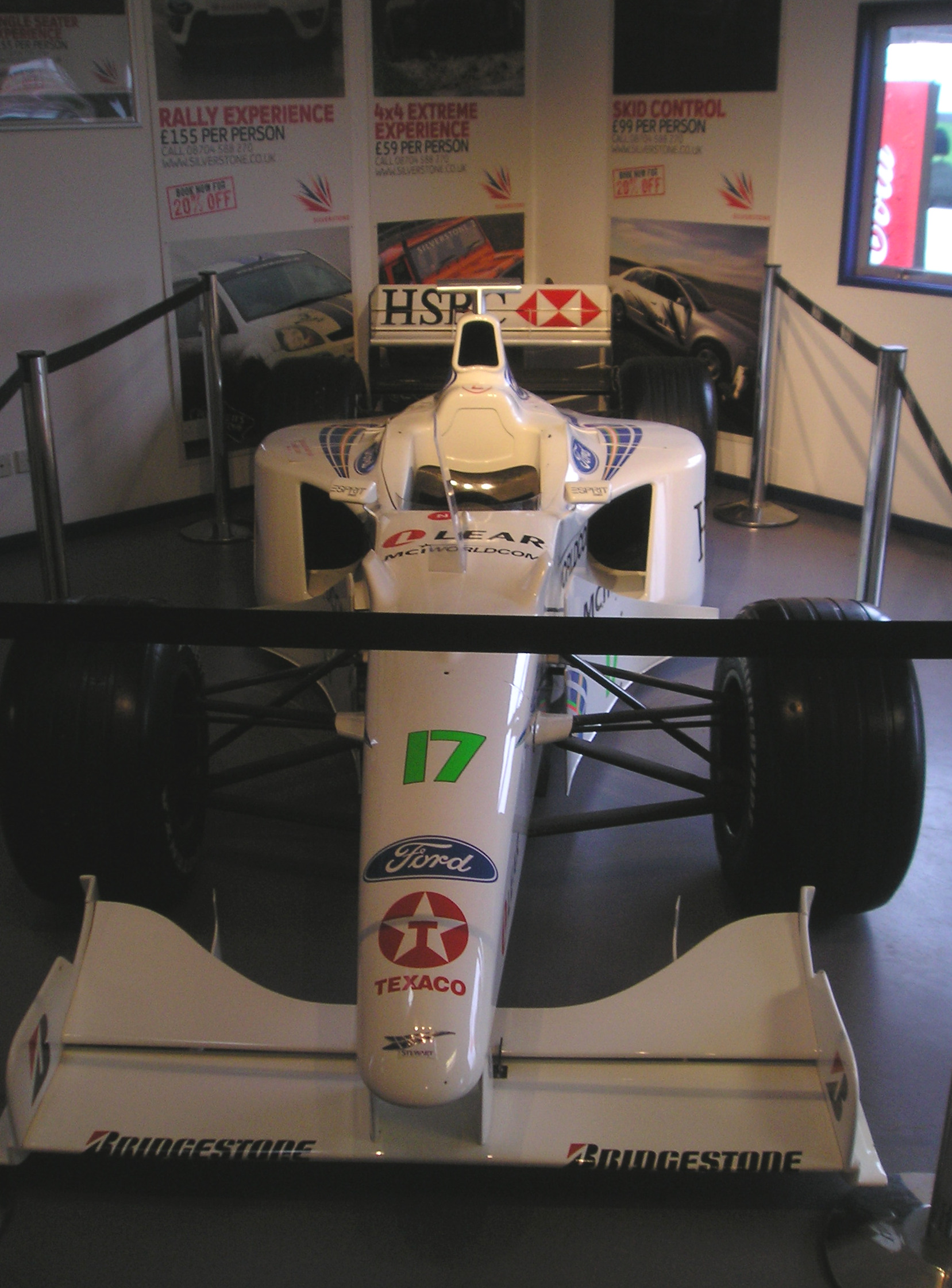 A photo of the Stewart GP SF3 Formula 1 car from 1999